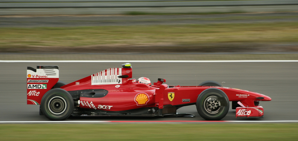 Kimi Räikkönen driving for Scuderia Ferrari at the 2009 German Grand Prix.